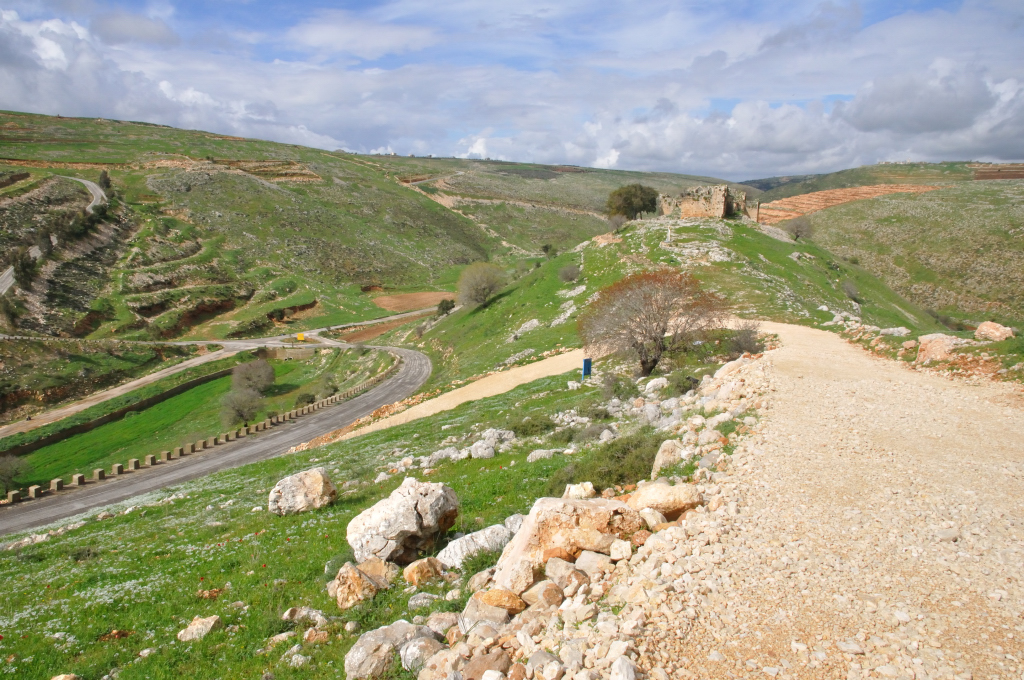 Lebanob - Chaqra